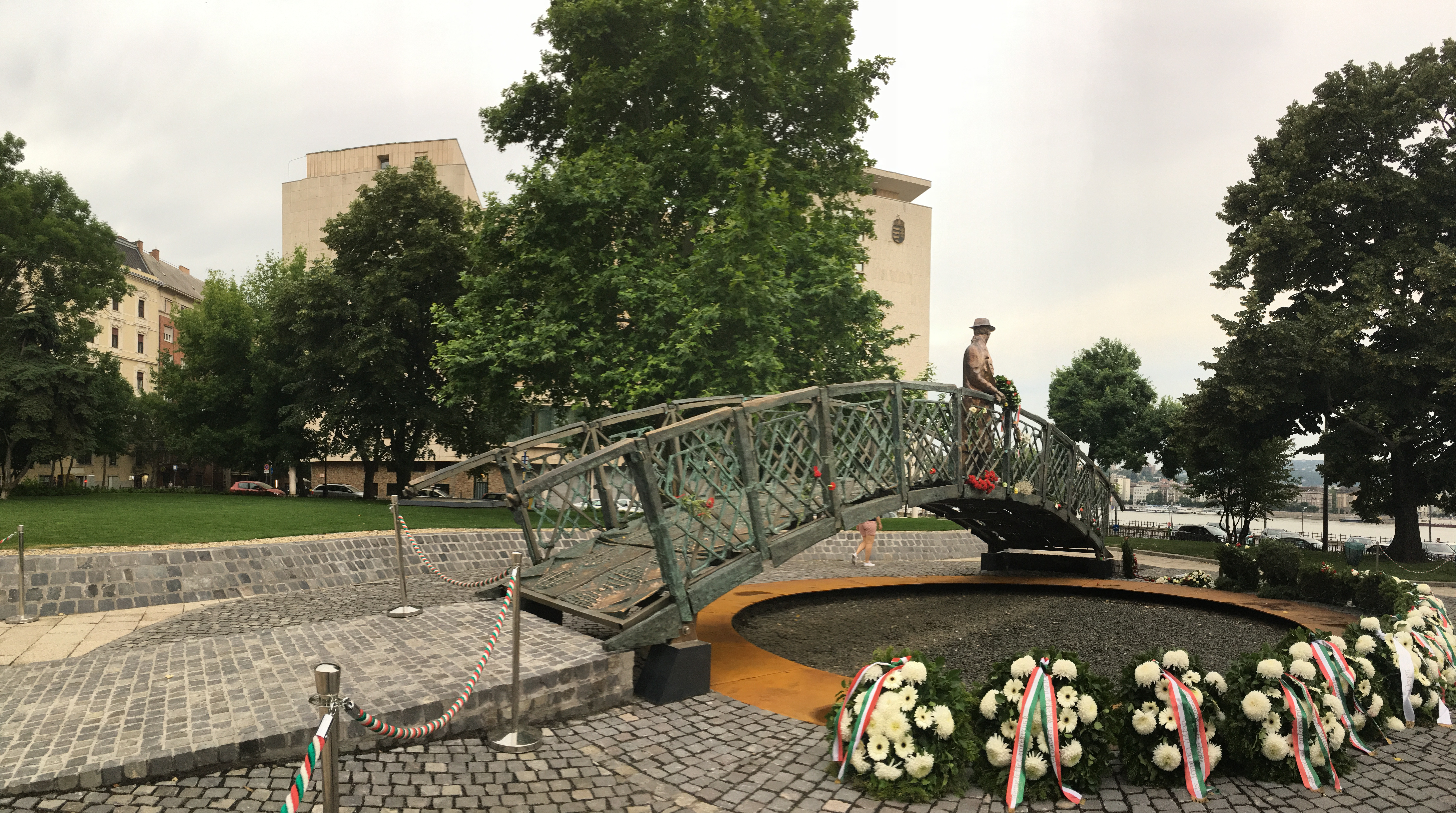 Imre Nagy statue in Jaszai Mari tér